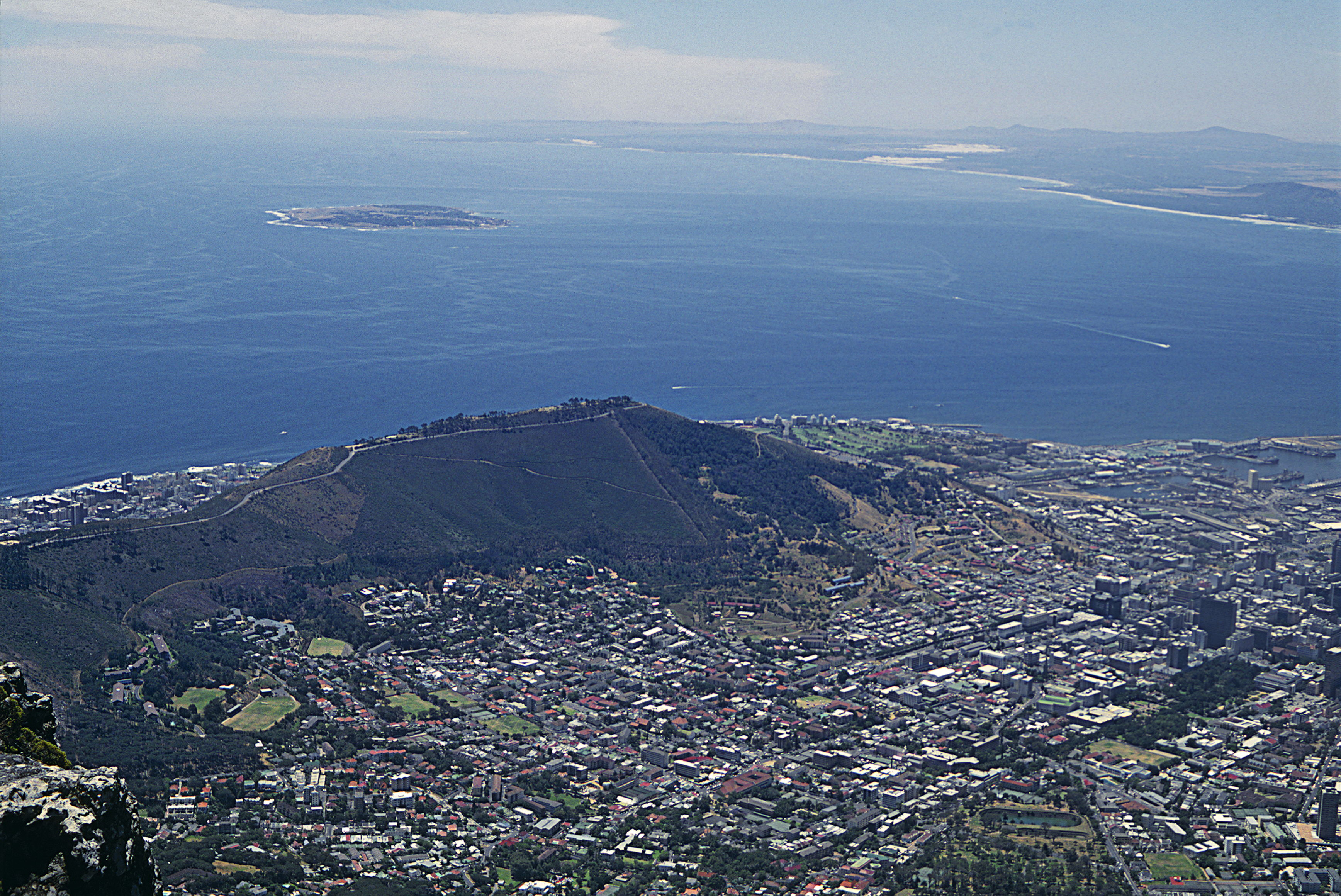 View from near Table Mountain lookout. In the picture is part of the Cape Town "bowl" area, Signal Hill, Victoria and Albert shopping precinct, Green Bay, Robben Island in the middle distance. Kodachrome 25